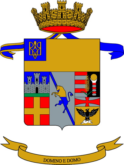 Coat of Arms of the 52° Artillery Regiment; Italian Army.